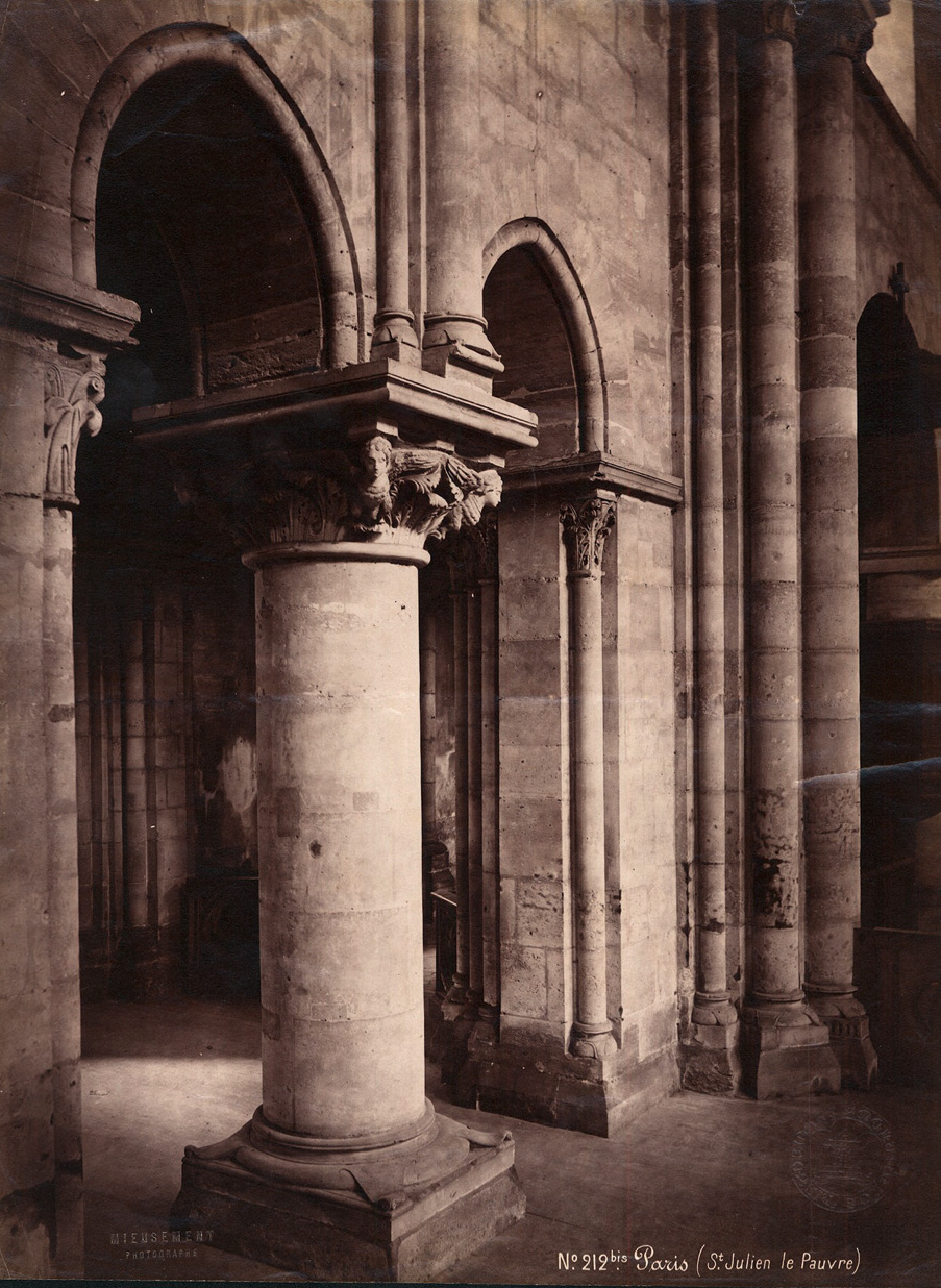 Paris, Église Saint-Julien-le-Pauvre. Albumen print. Ca. 25,5 x 36,5 cm.